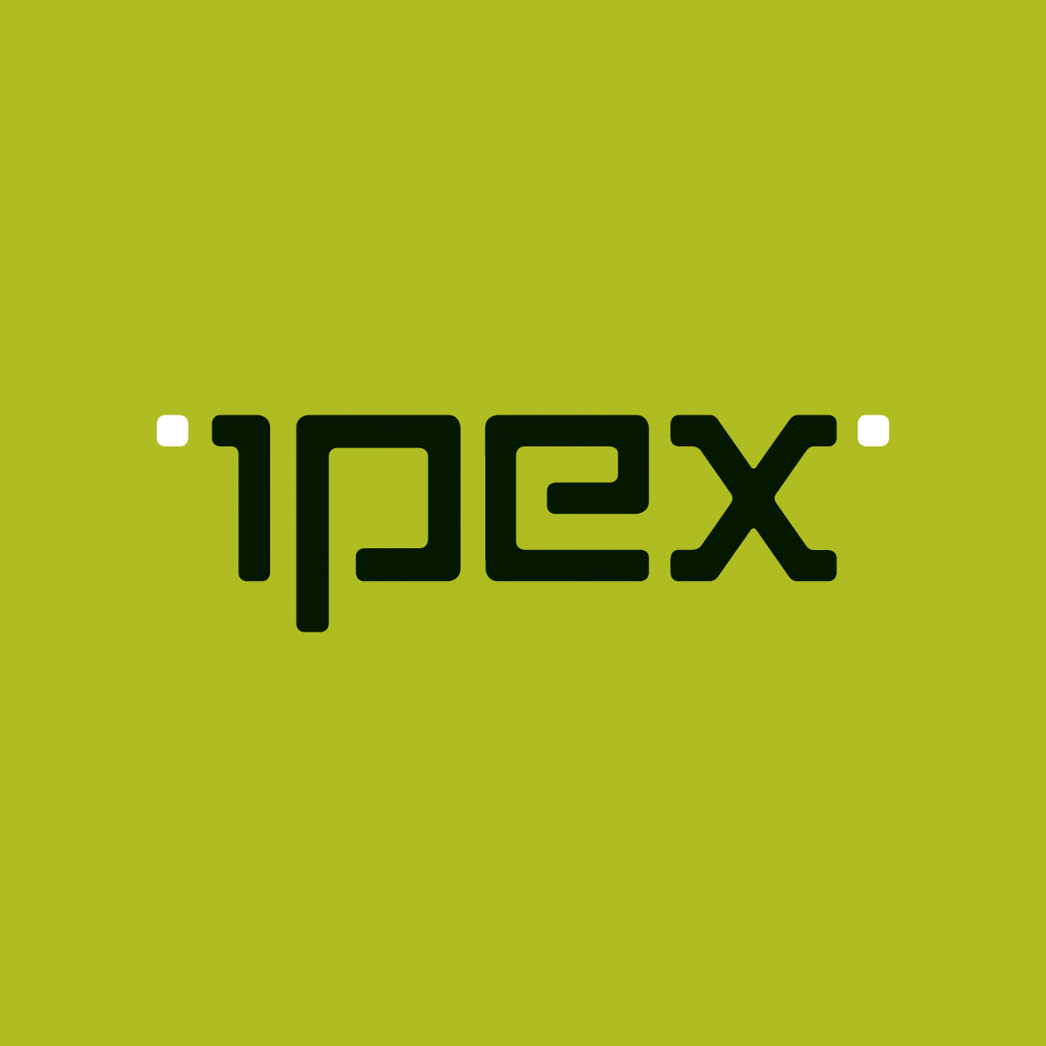 Logo of IPEX a.s. company.